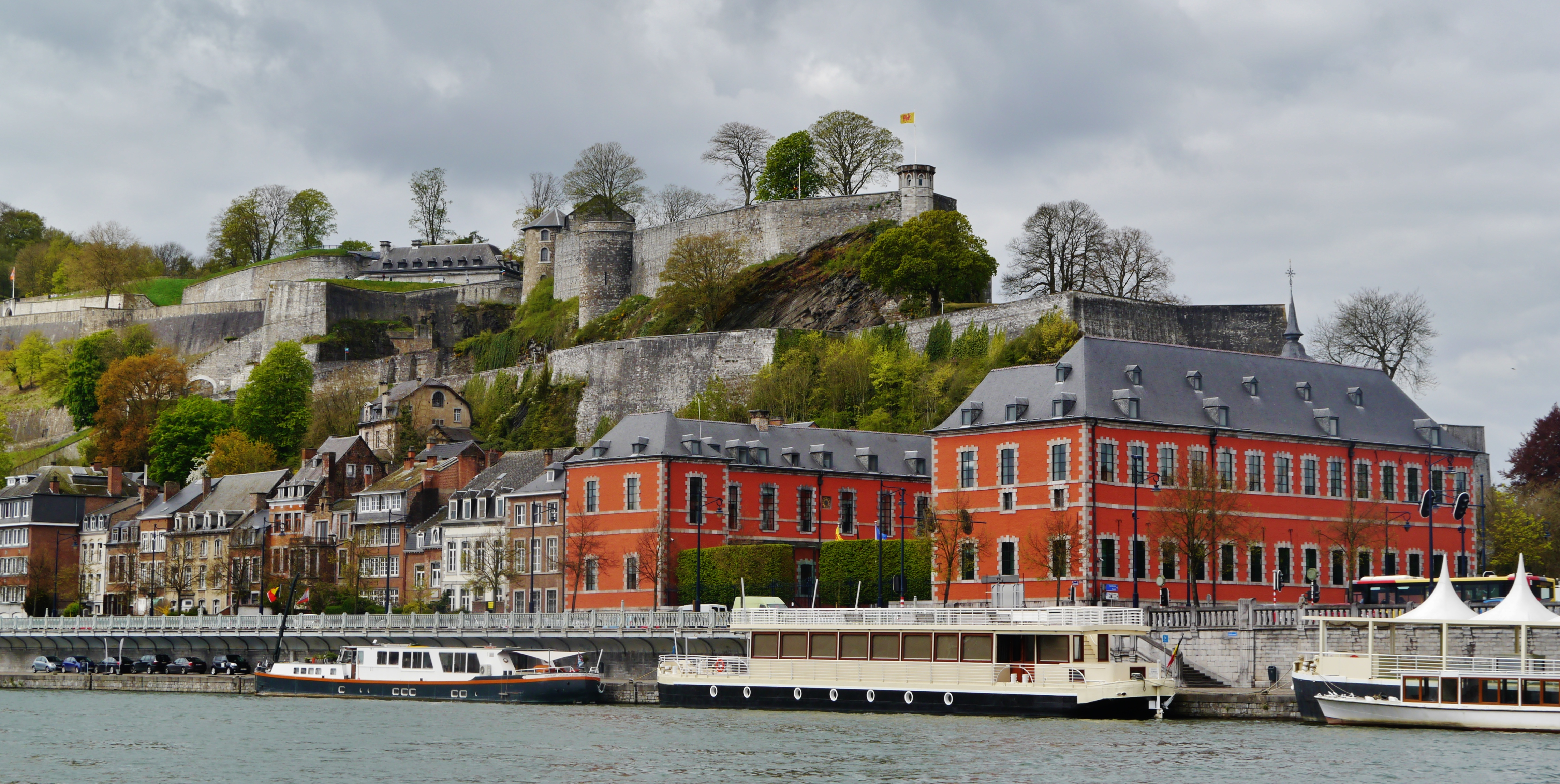 Citadel & Parliament of Wallonia, Namur, Province of Namur, Wallonia, Belgium